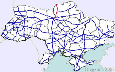 map of motorway M01 in Ukraine